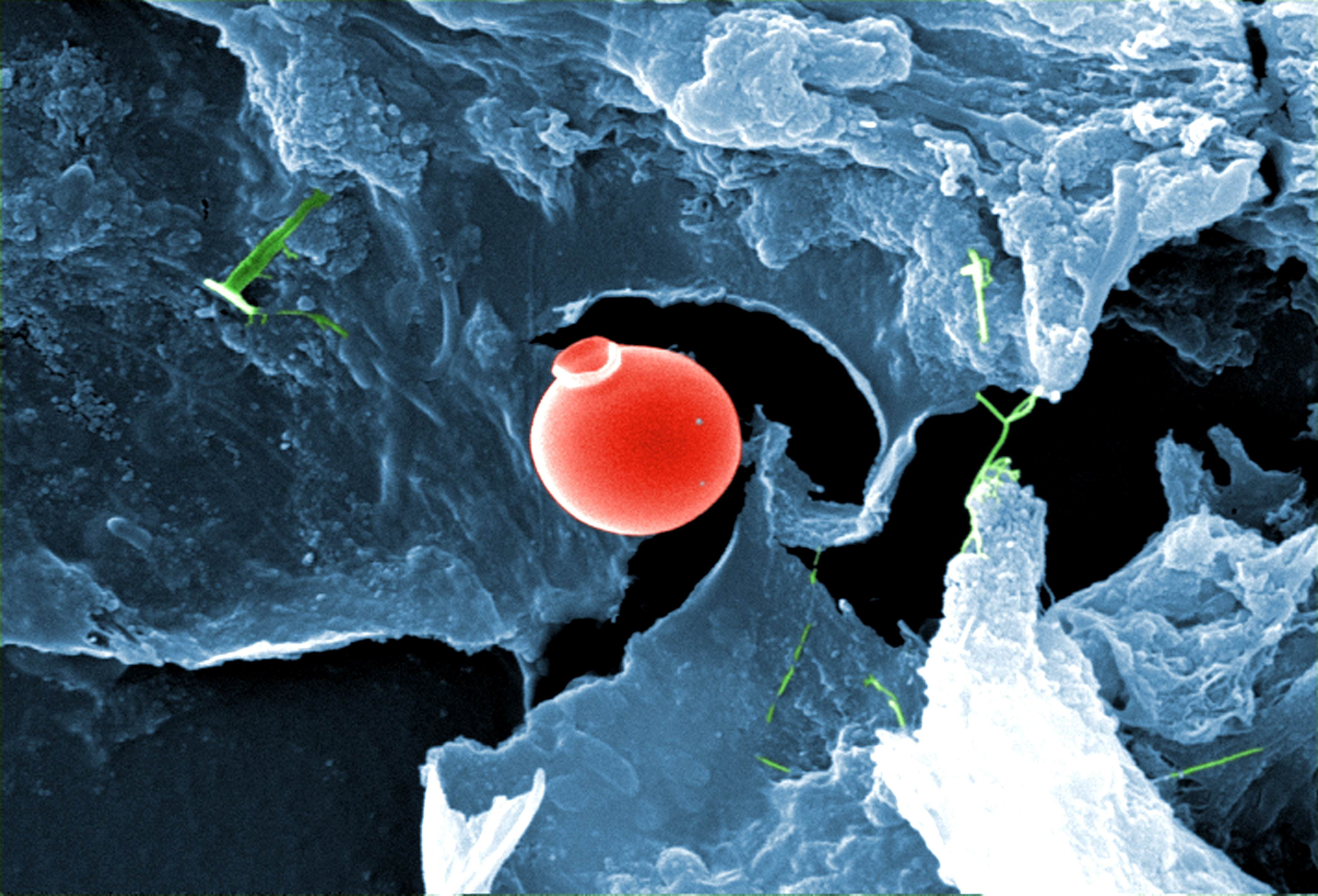 Unidentified spherical algal microorganism